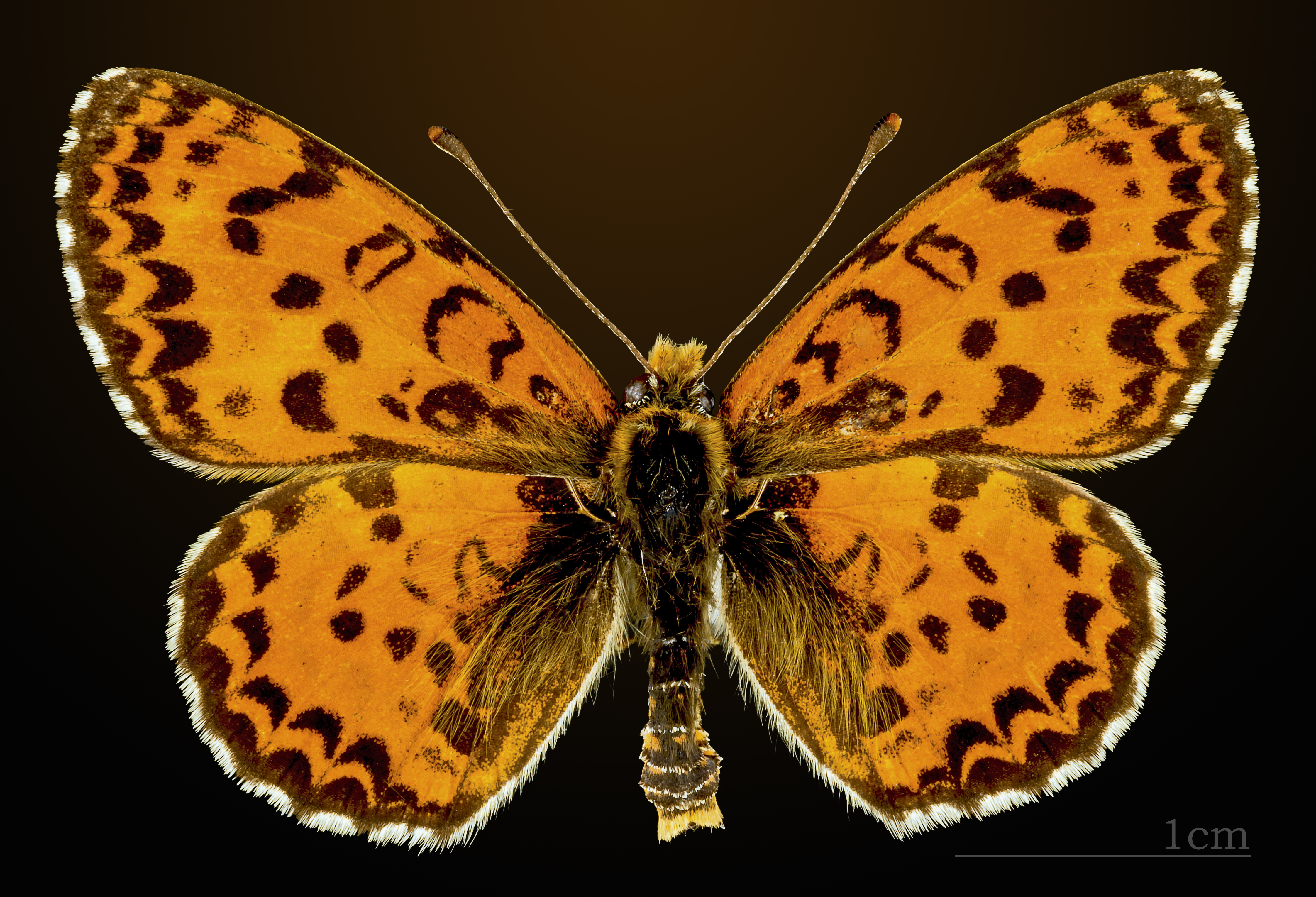 Red-band Fritillary - Dorsal side Locality: Cahors, Lot, France